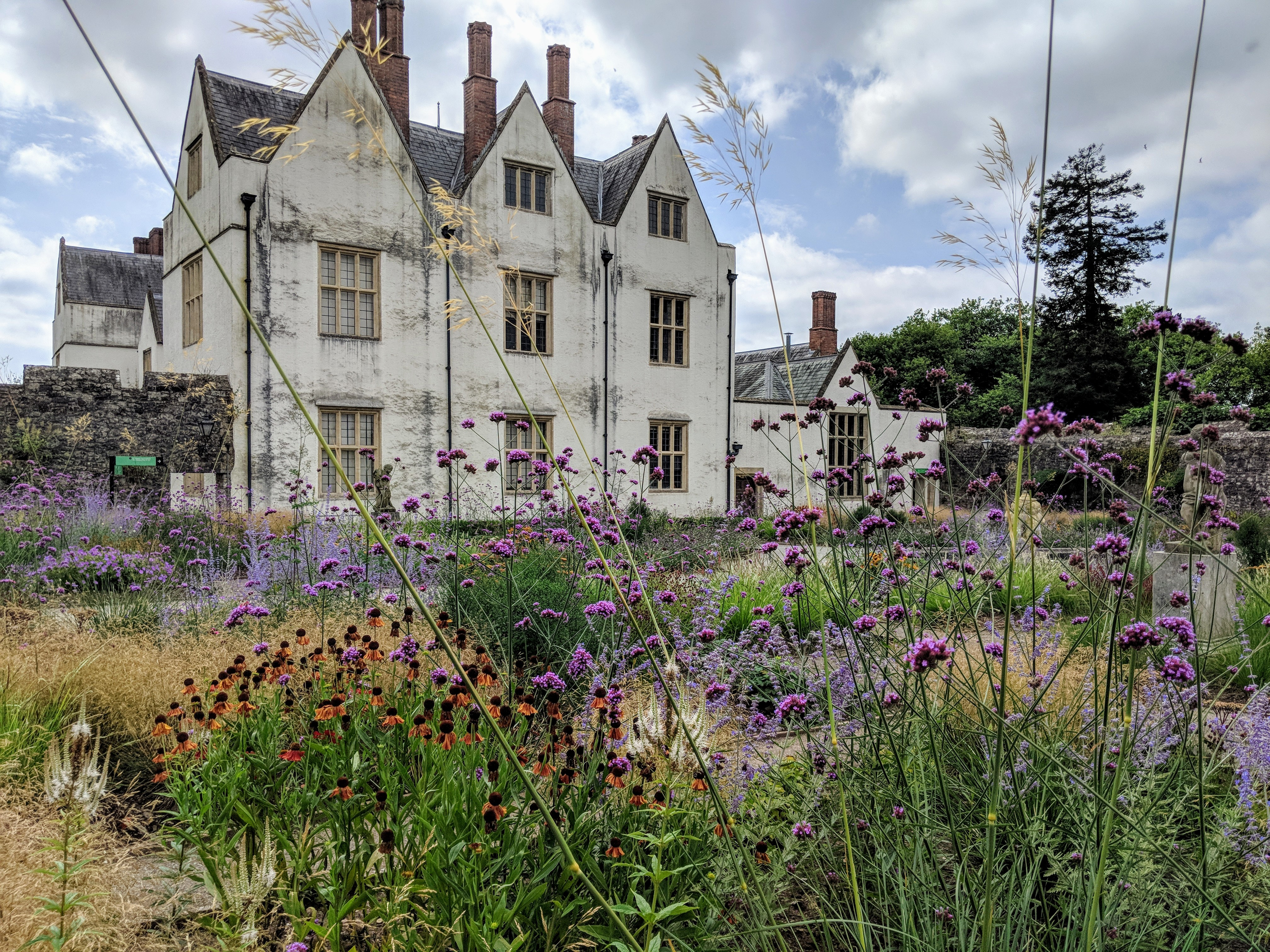 St Fagans Castle Wikidata has entry Q9706060 with data related to this item.